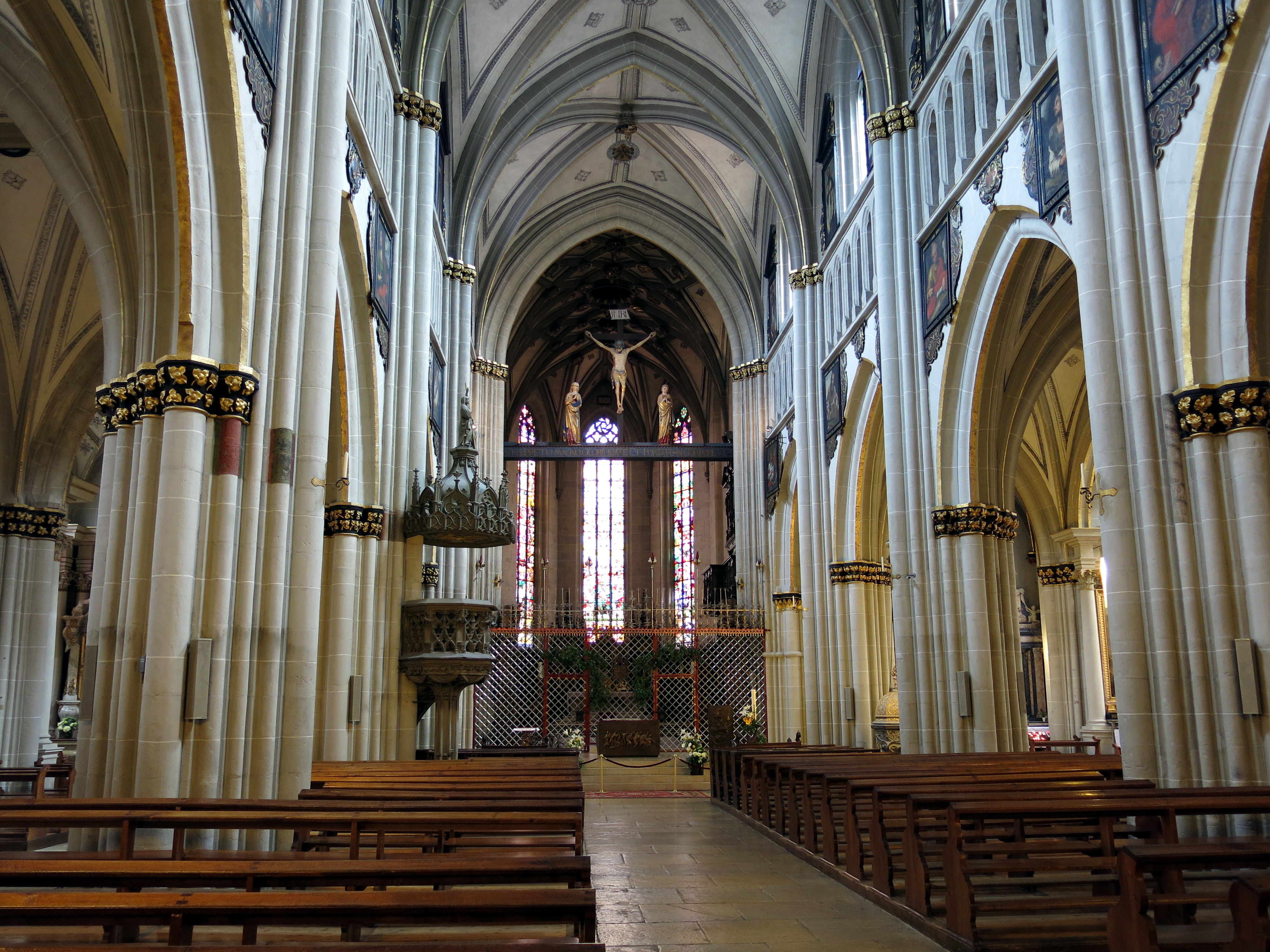 Fribourg, Switzerland